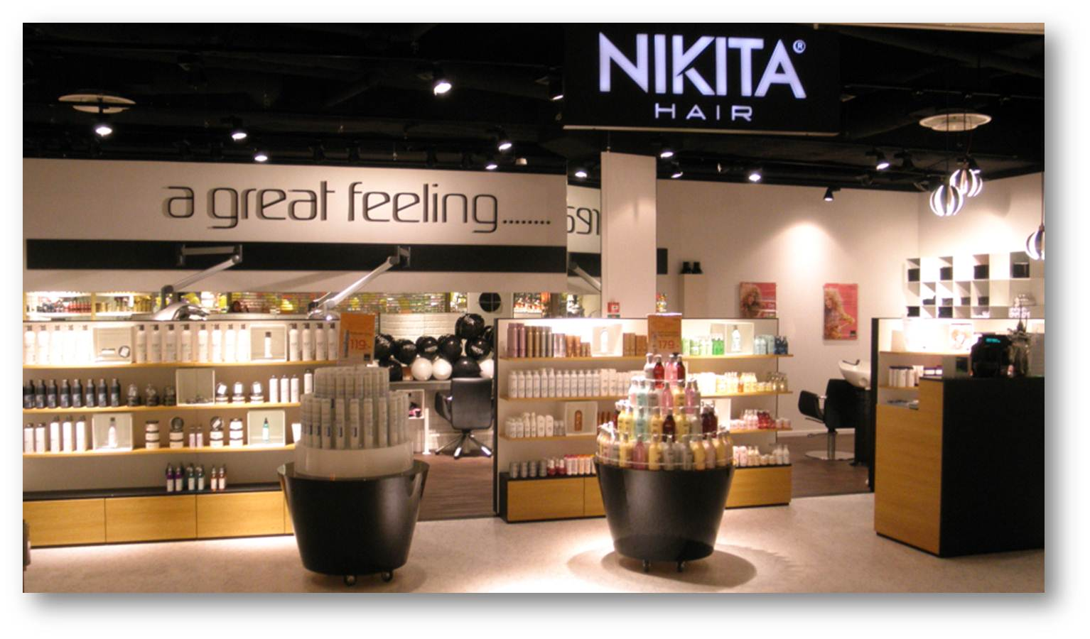 Nikita Hair salong